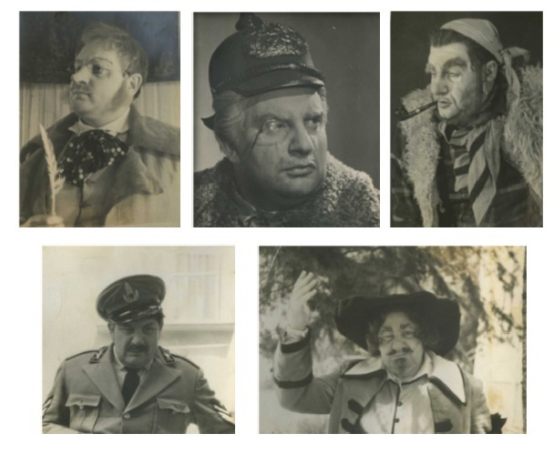 Александр Аронов и его театральные персонажи